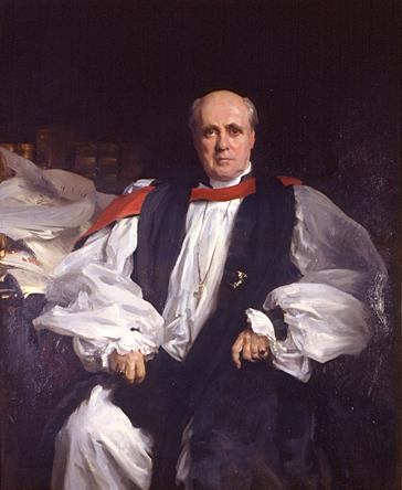 Randall Davidson (1848-1930), Archbishop of Canterbury